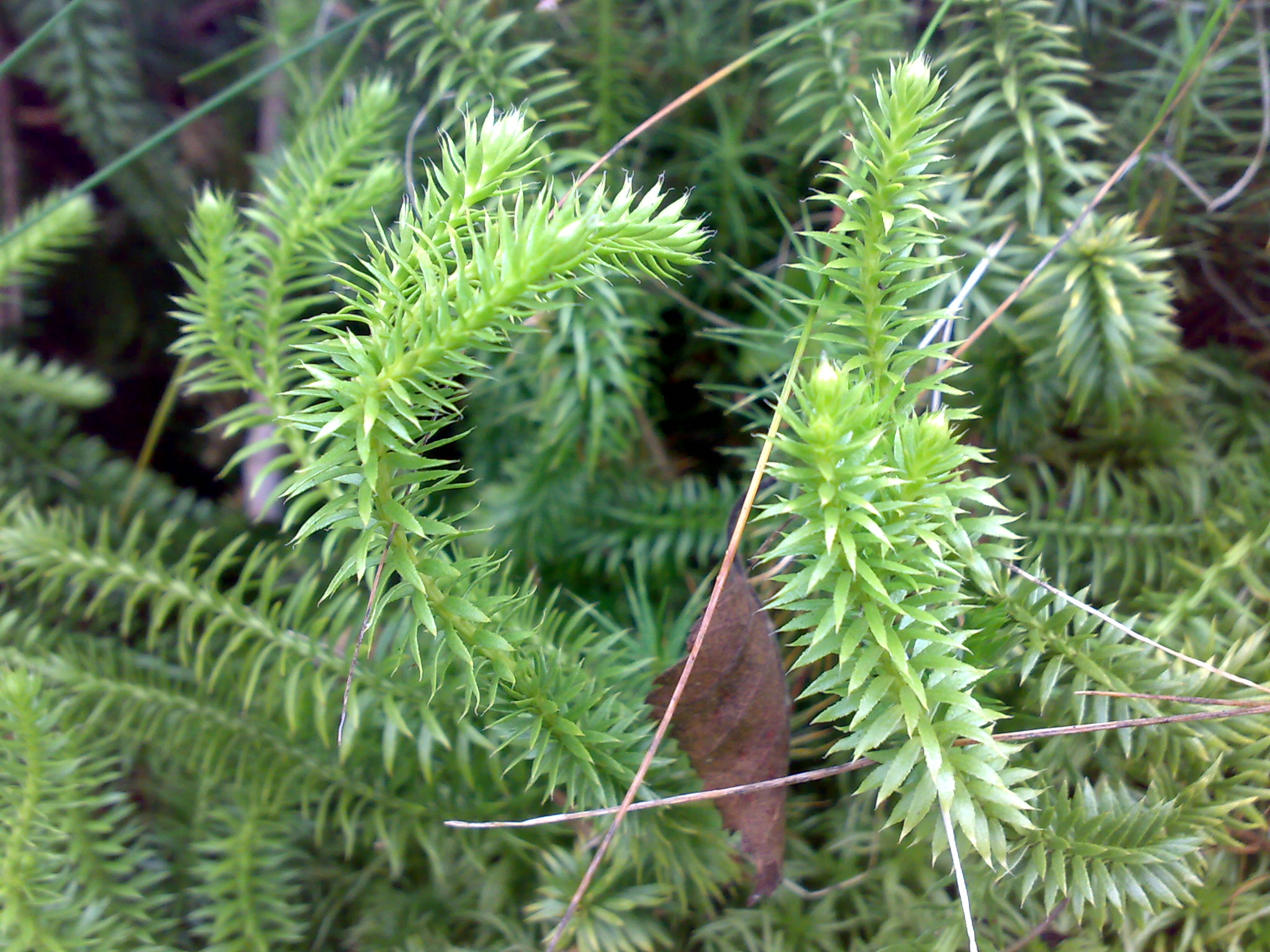 Lycopodium annotinum closeup from Baerum forest in Akershus, Norway. Hallmarks: All leaves a bit hanging, slightly zig-zagged leaves.